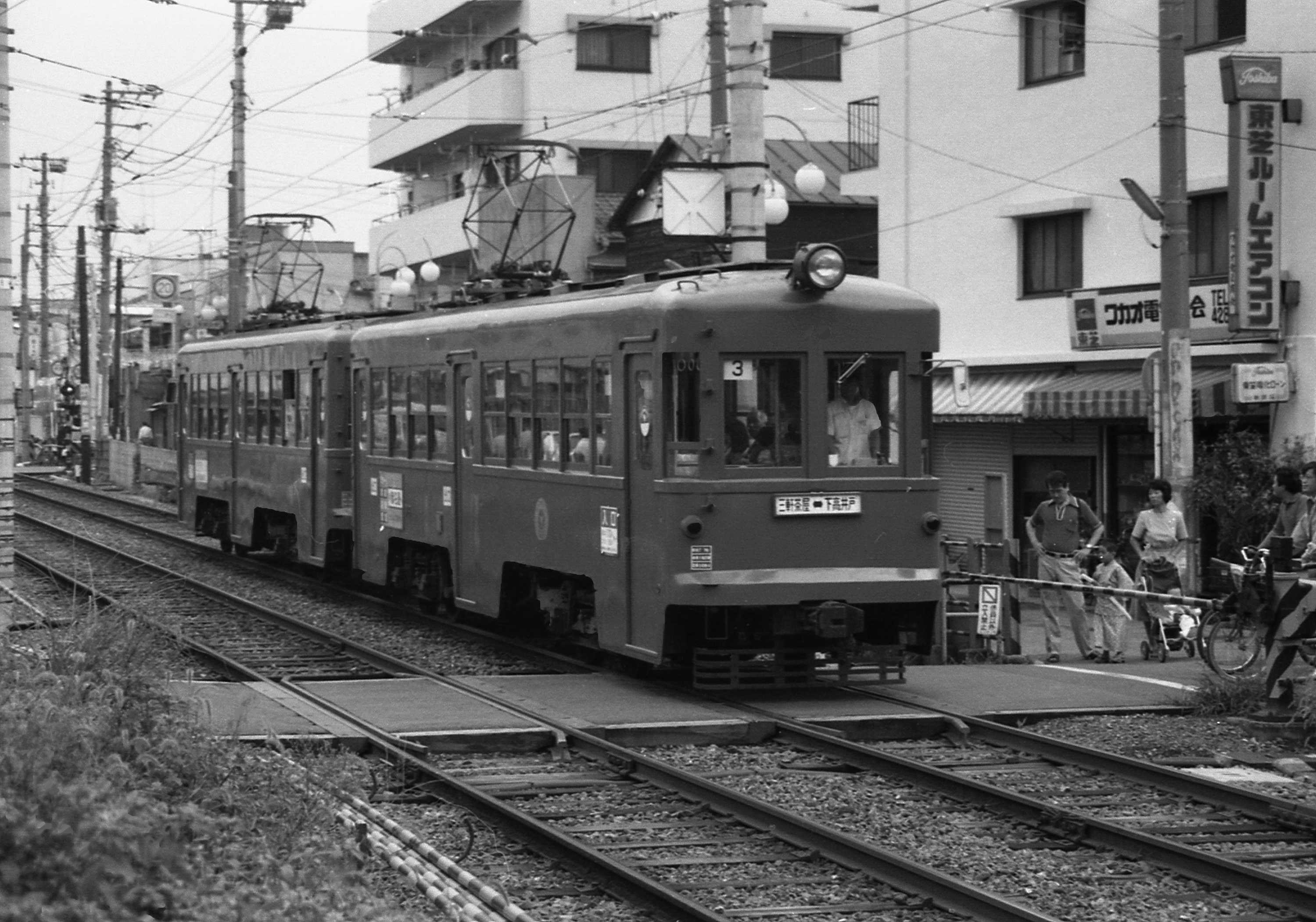 Tokyu type 70 train running Setagaya line